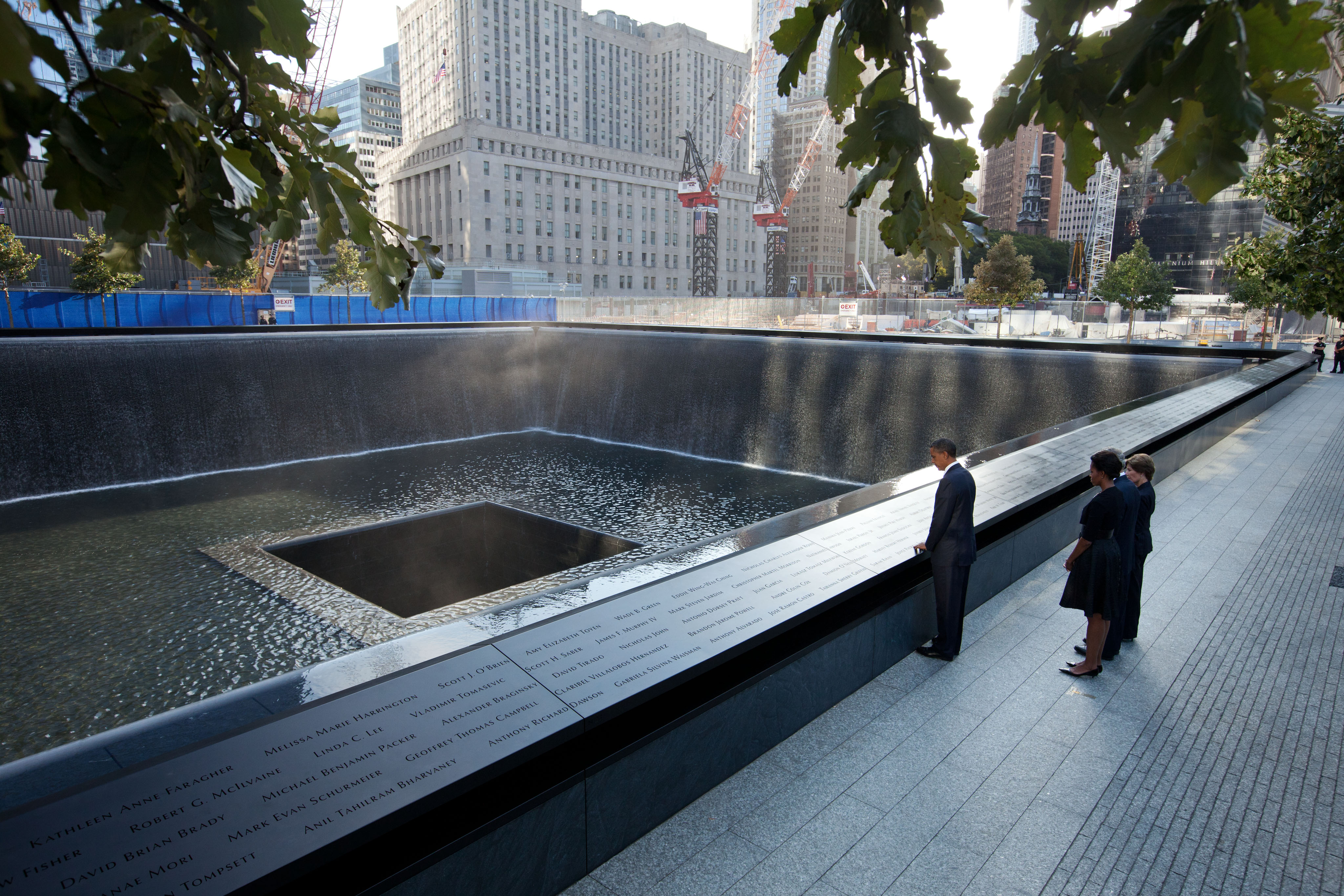 P091111CK-0217 President Barack Obama and First Lady Michelle Obama, along with former President George W. Bush and former First Lady Laura Bush, pause at the North Memorial Pool of the National September 11 Memorial in New York, N.Y., on the tenth anniversary of the 9/11 attacks against the United States, Sunday, Sept. 11, 2011. The North Memorial pool sits in the footprint of the north tower, formerly 1 World Trade Center.